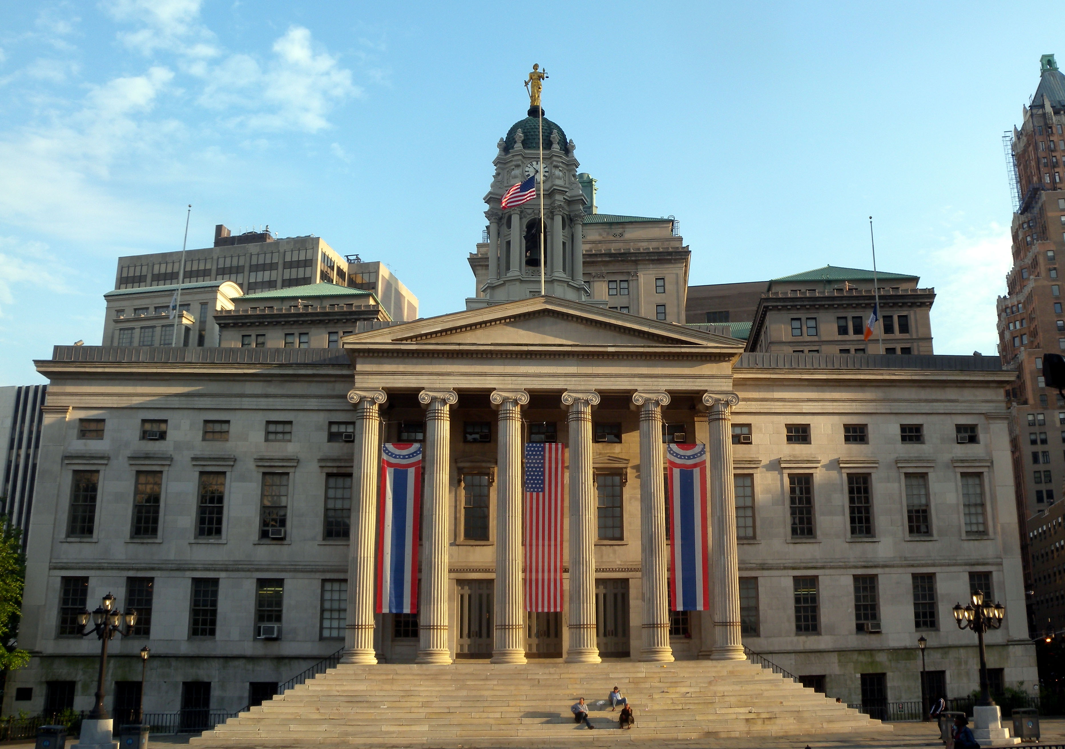 Looking south at Brooklyn Boro Hall on a sunny dusk near midsummer.